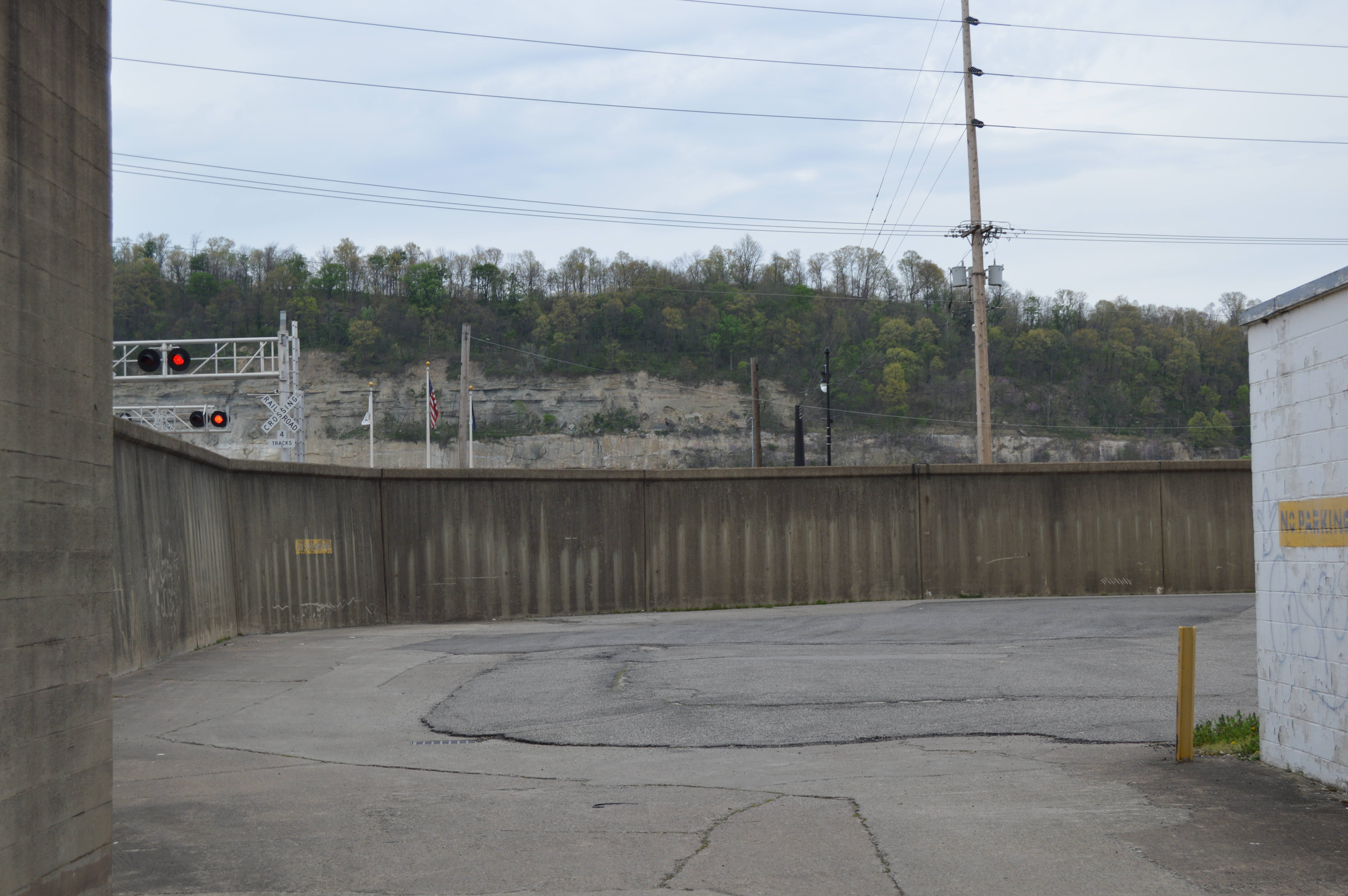 An empty lot on the eastern side of Fifteenth Street north of Greenup Avenue in Ashland, Kentucky, United States. This is the site of the Nando Felty Saloon, which was listed on the National Register of Historic Places in 1979 and has not yet been removed, despite its destruction. In the background is the floodwall that protects Ashland from the Ohio River.